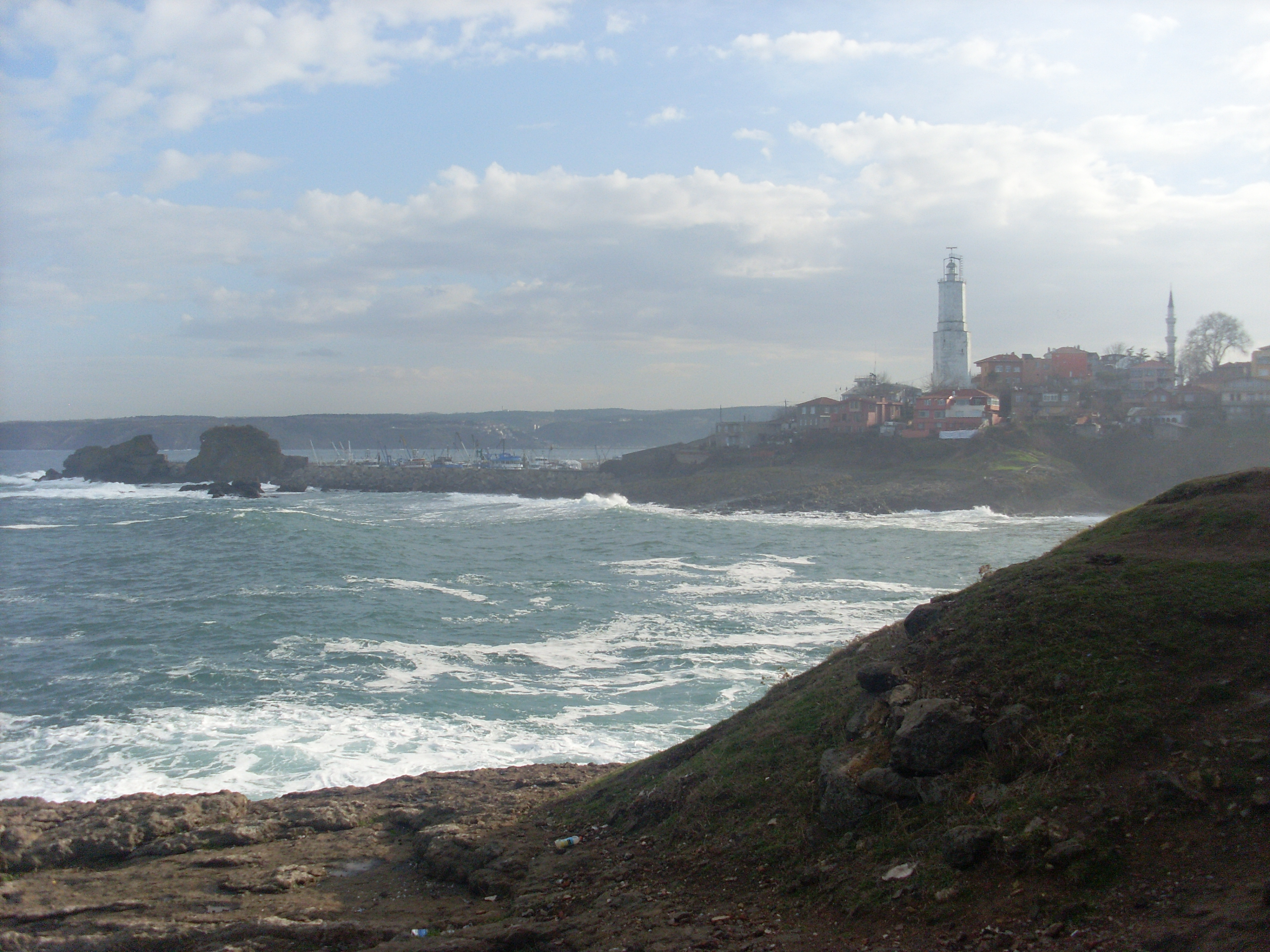 Rumeli Lighthouse, Sarıyer p1